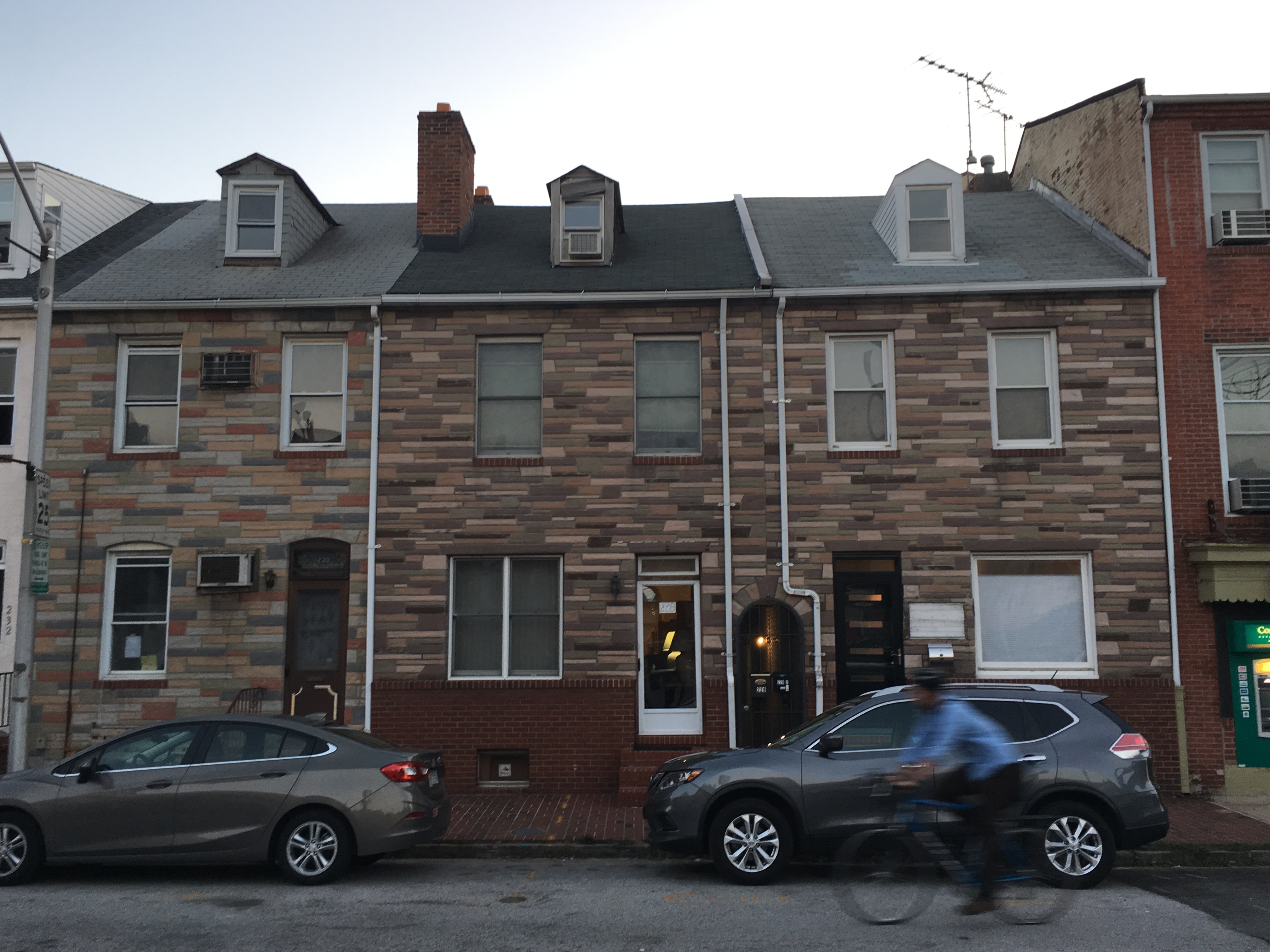 Examples of Formstone on rowhouses in the Little Italy neighborhood, Baltimore.